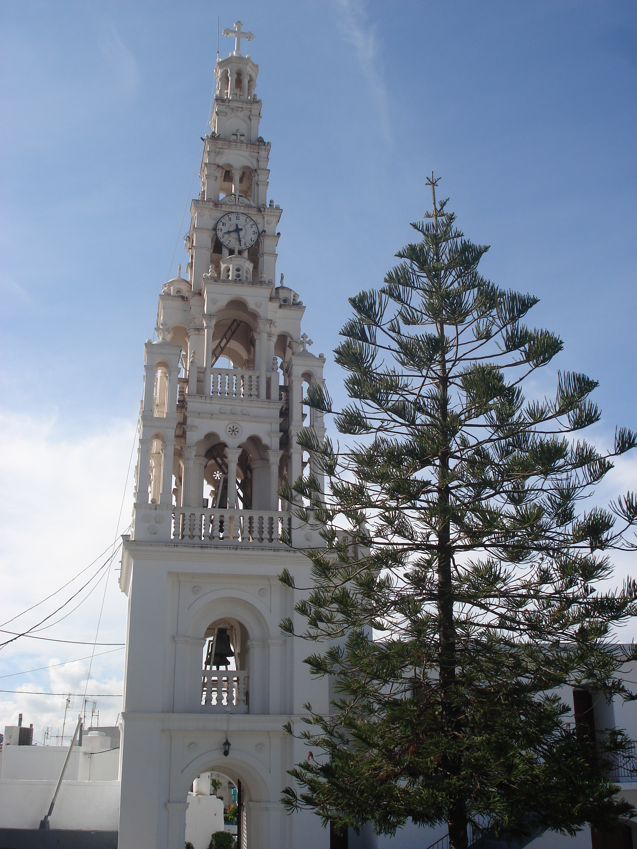 Bell tower of Archangelos Michael Church in Archangelos, Rhodes Island, Greece